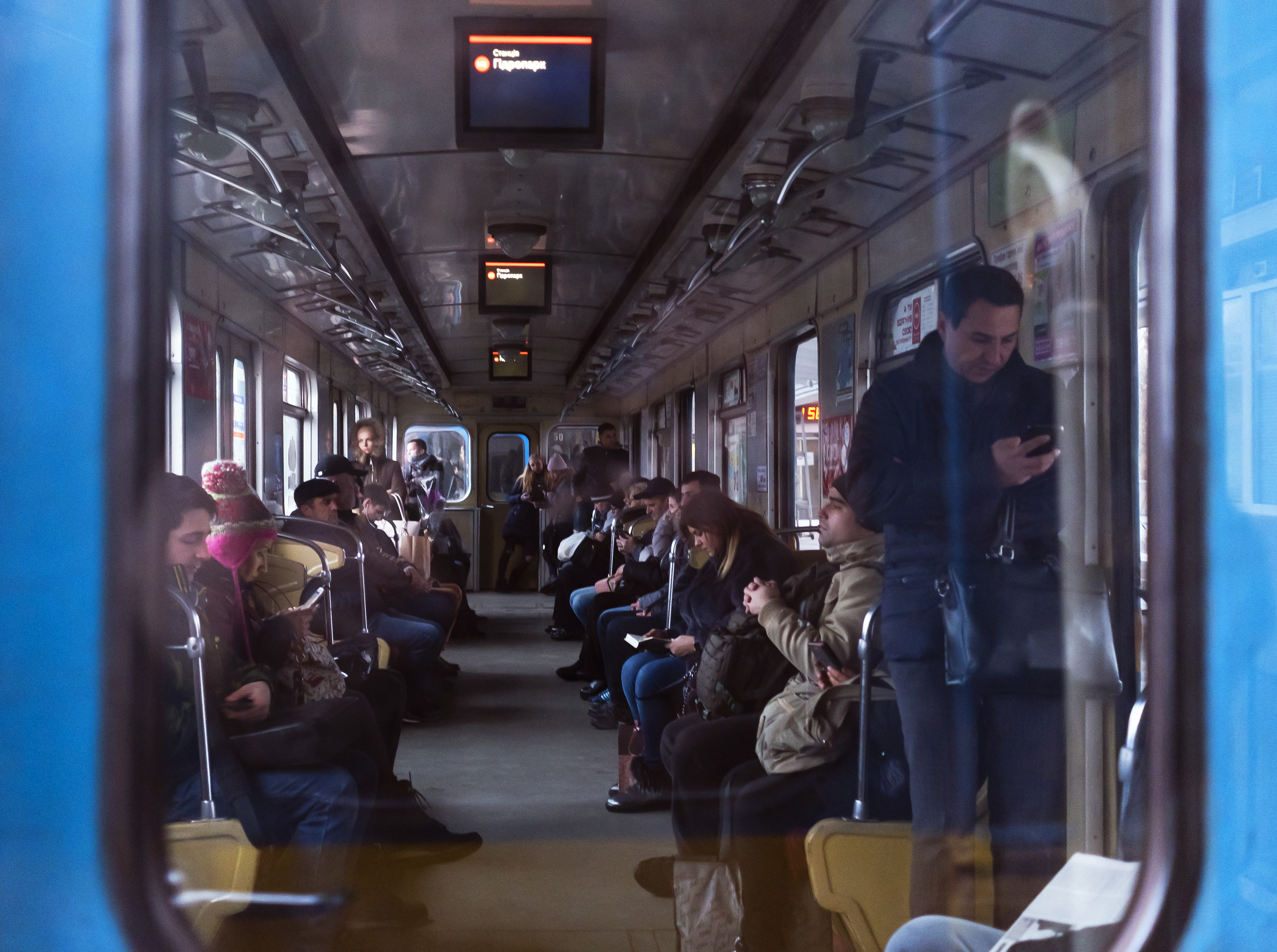 Look through glass in Kyiv Subway, 2018